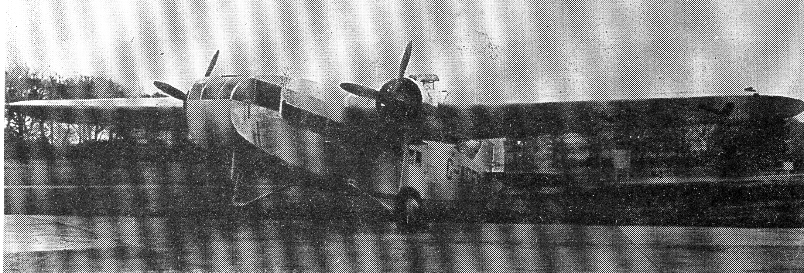 The sole Avro 642, GACFV, with original semi-circular nose in February 1934